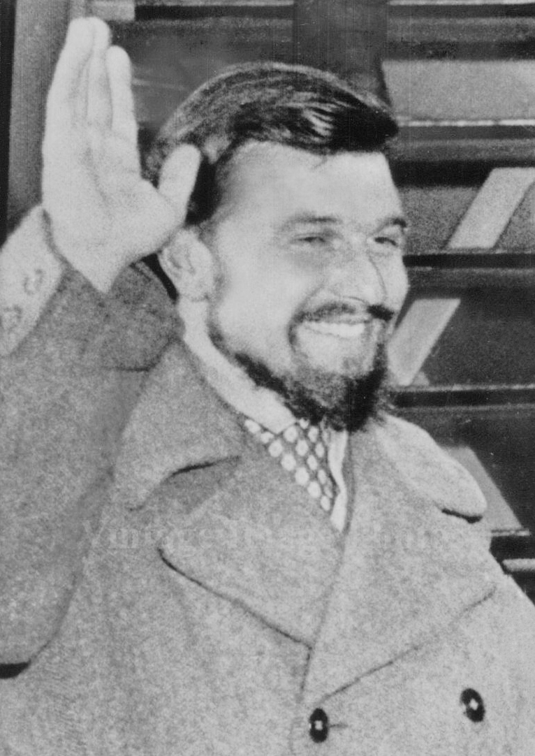 Wire Photo George Blake Diplomat Sentence Spy Prison Russia